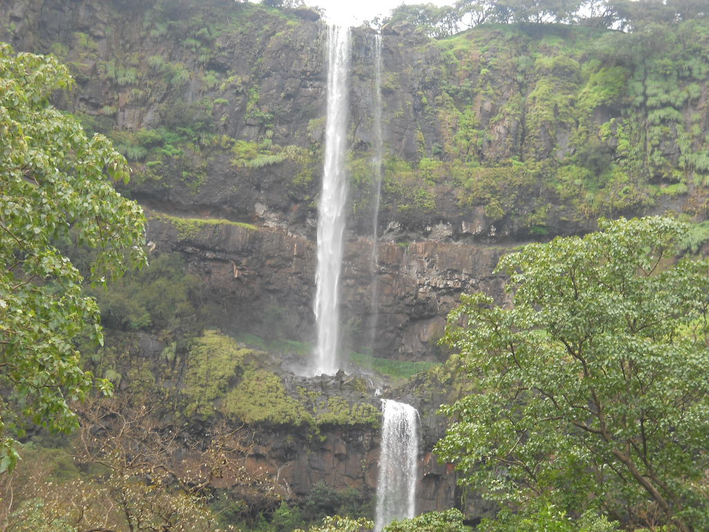 Vajrai Water fall, Bhambovali village, Satara city, Maharashtra , India